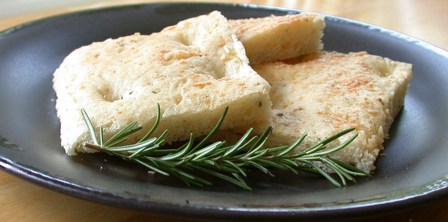 Photo of focaccia bread, made and taken by Dvortygirl, 19 June 2005